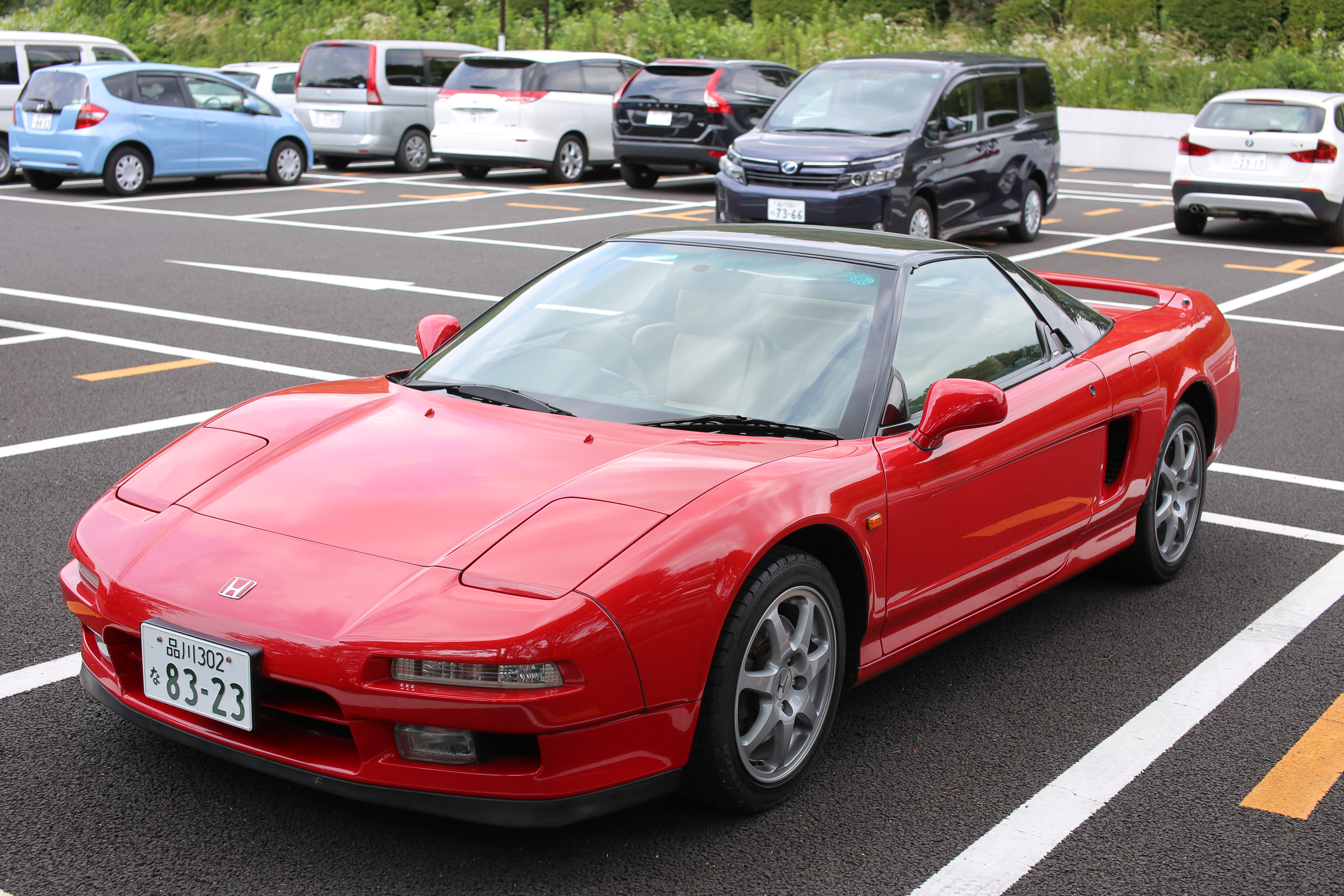 Honda NSX 1997 AT JDM Custom Order Model